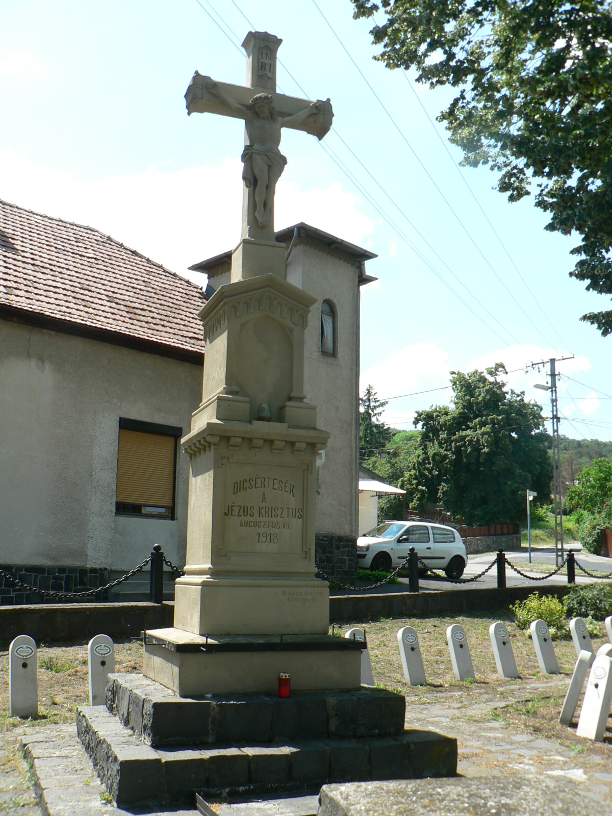 Kereszt a település központjában.